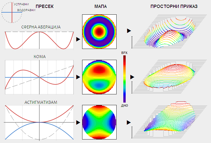 ПРИКЗИВАЊЕ ОДСТУПАЊА ТАЛАСНОГ ФРОНТА ОД ПОРЕДБЕНЕ СФЕРЕ